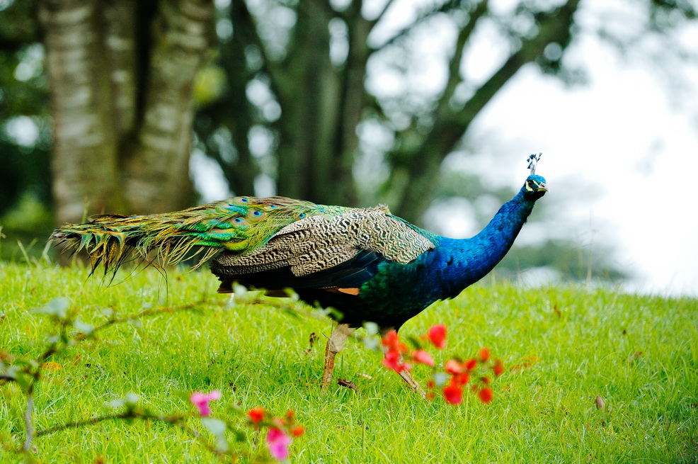 Peacock, Nyeri, Nyeri County